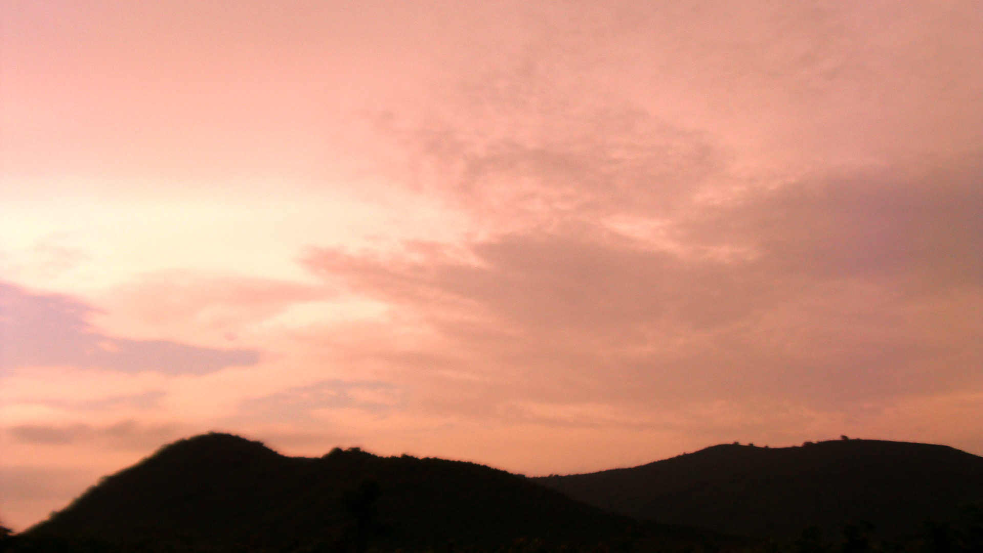 Choudwar is a city and a municipality in Cuttack district in the state of Odisha, India.